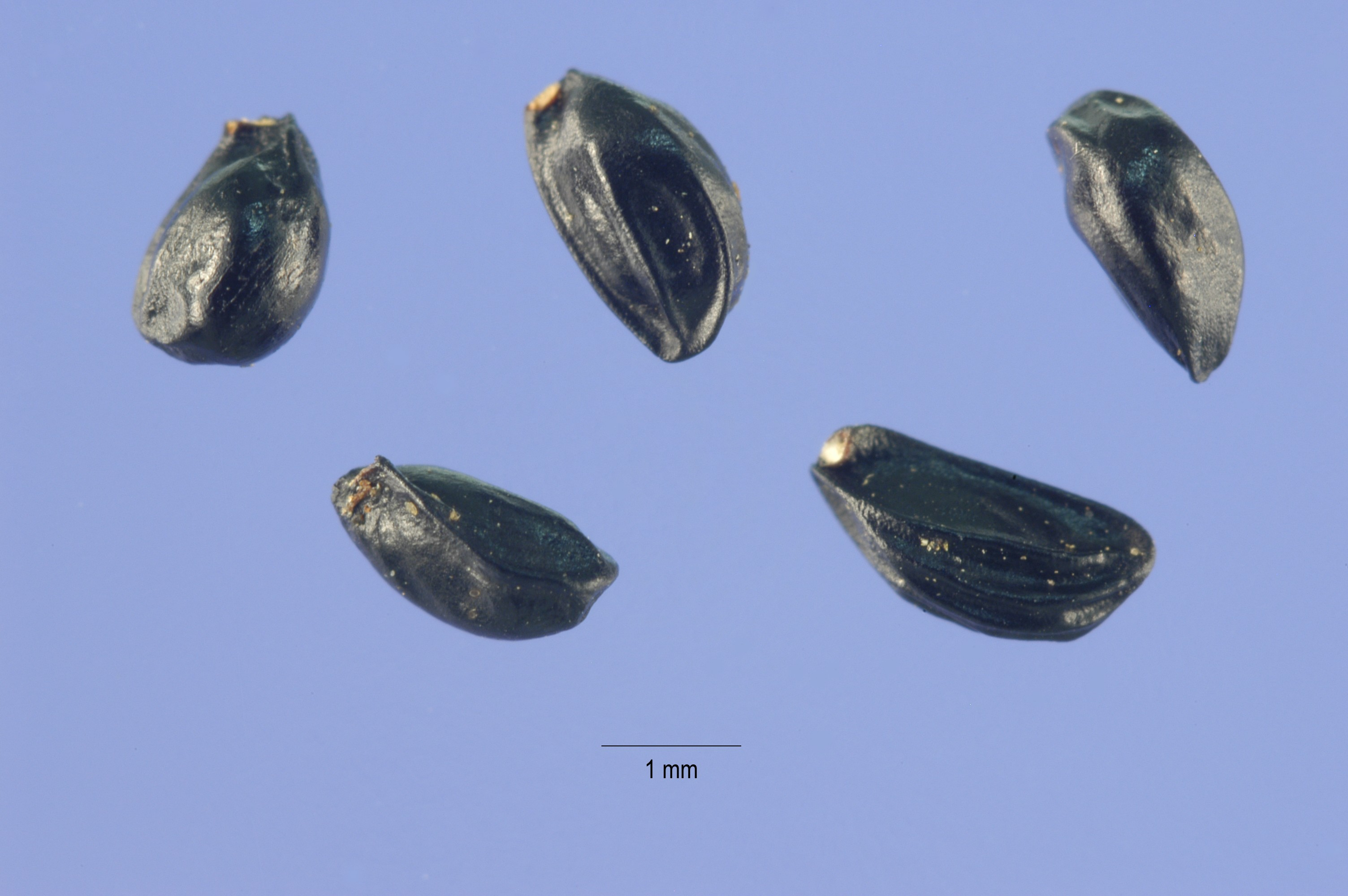 Columbian Monkshood. Seeds. Nevada, USA. (Family Ranunculaceae)